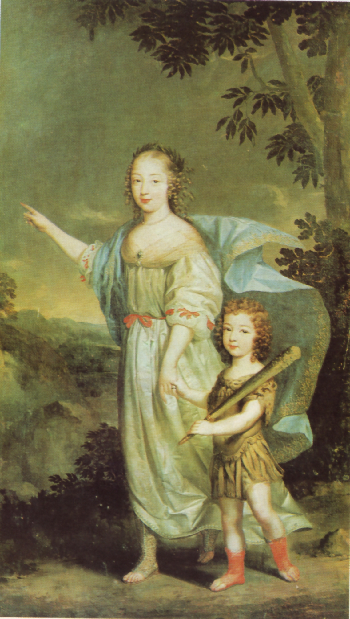 Lady with little Hercules